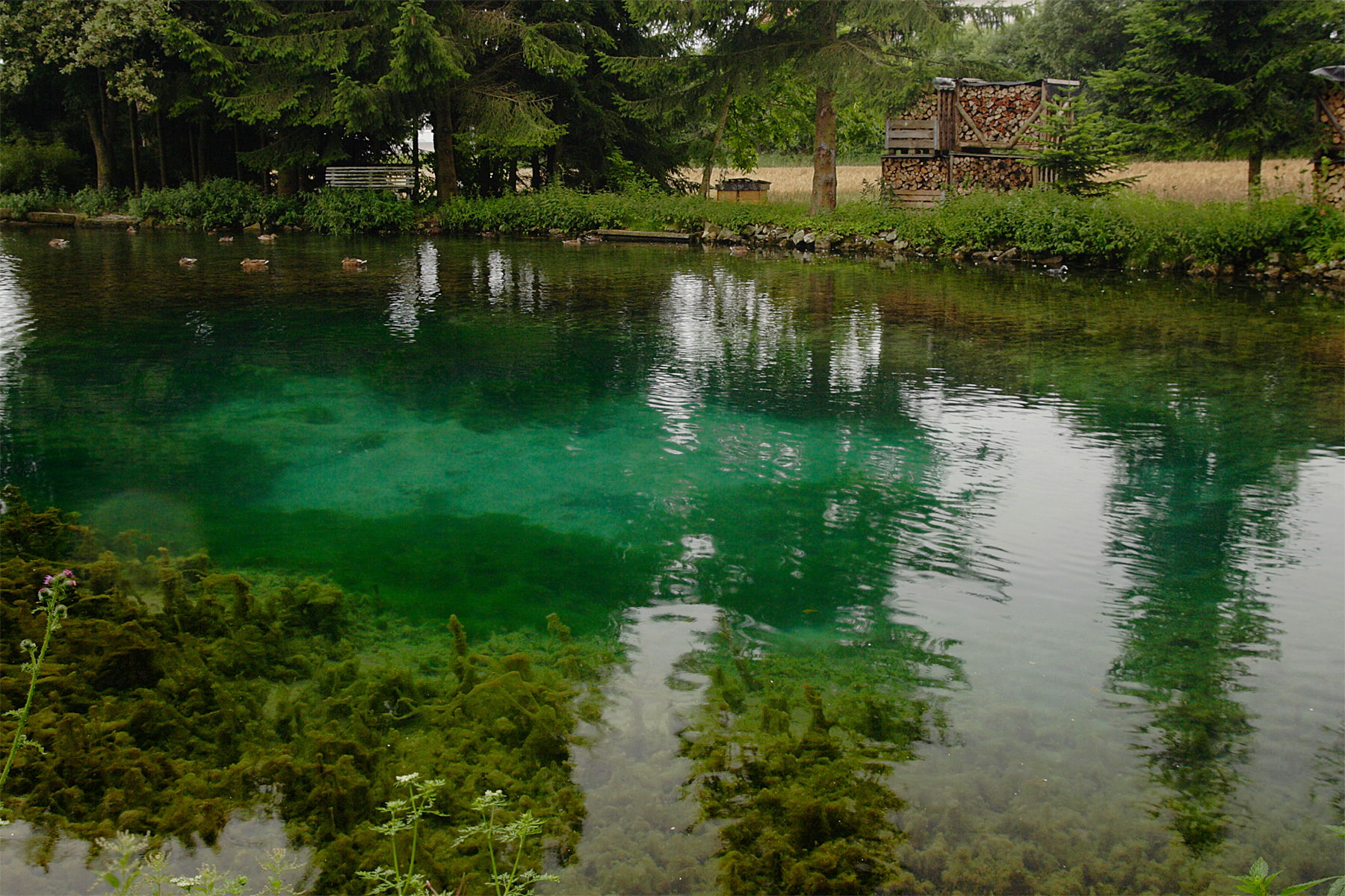 karst spring of the “Biberquelle“, northwest of Langenenslingen (a community 13 km northeast of Sigmaringen), Swabian Alb. The spring is framed by a 20 m lake, feeding a mill since early medieval times. Today the karst water is used to generate electric power. Thereafter the spring’s karst water forms the rivulet “Biberbach”, which flows into the Danube after only 8 km. The karst water emerged from the marly formation “Zementmergel”, one bedding of the South German White Jurassic (ki5). Marly rock beds are rather known to be impounding, but here this is not the case. Geologists therefore think, that the “Friedinger” tectonic fault near by may be a proper explanation for this exception.